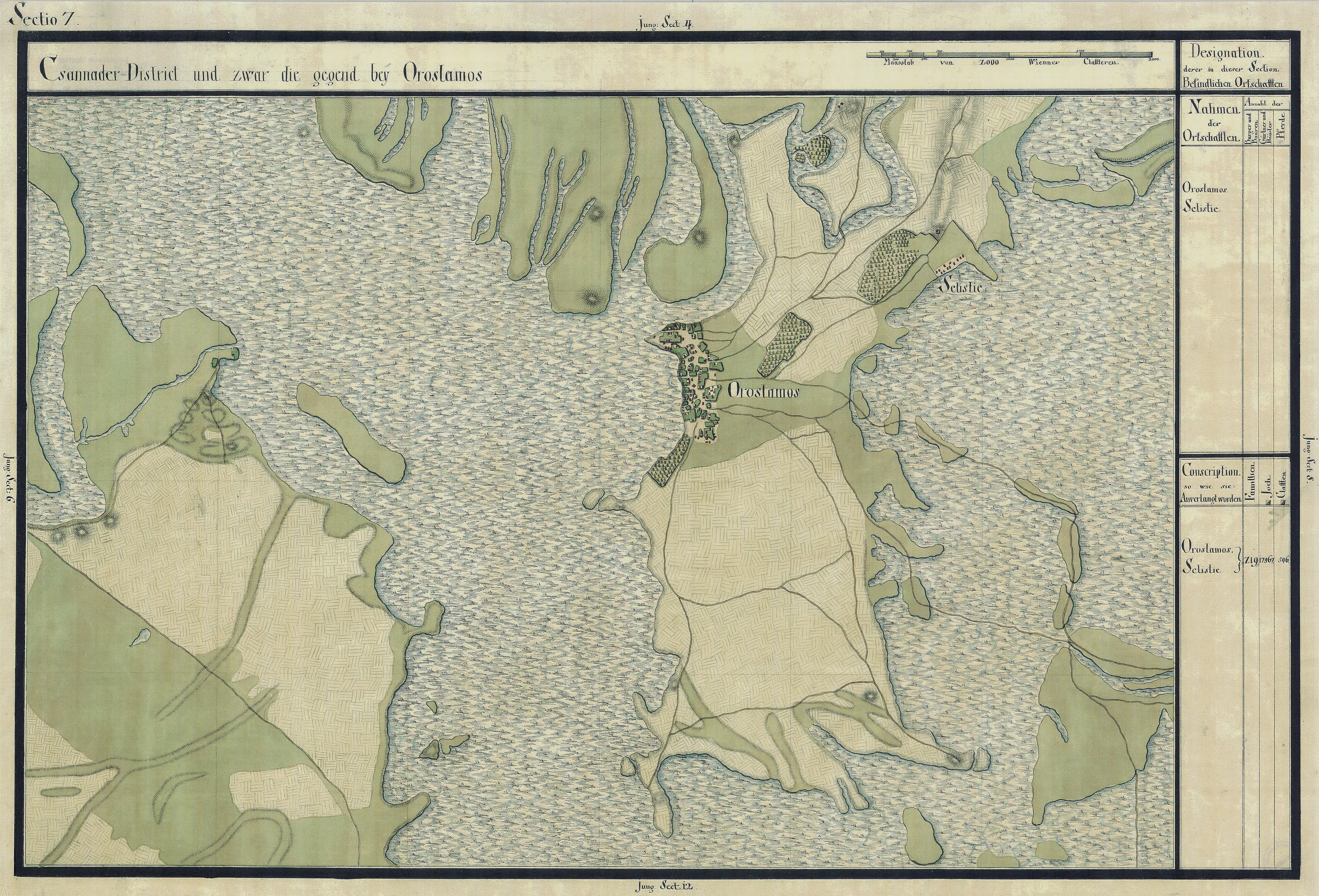 The Banat region in the cadastral maps: Josephinische Landesaufnahme, 1769-72. Josephinische Landaufnahme pg007